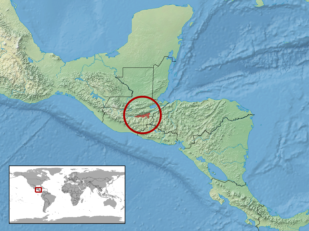 geographic distribution of Ctenosaura palearis (Native: Guatemala)